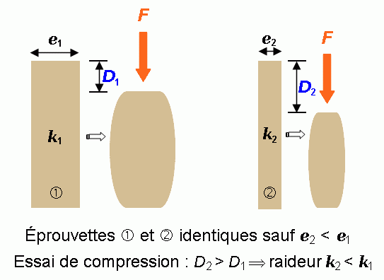 Stiffness, k, depends on geometry.